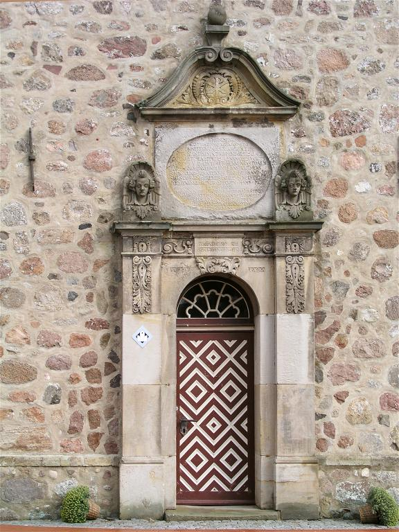 Dorum, Lower Saxony, Germany: Church St. Urbanus, entrance, photo 2006